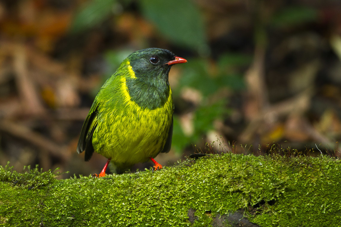 Gree-and-black Fruiteater - Colombia_S4E1819